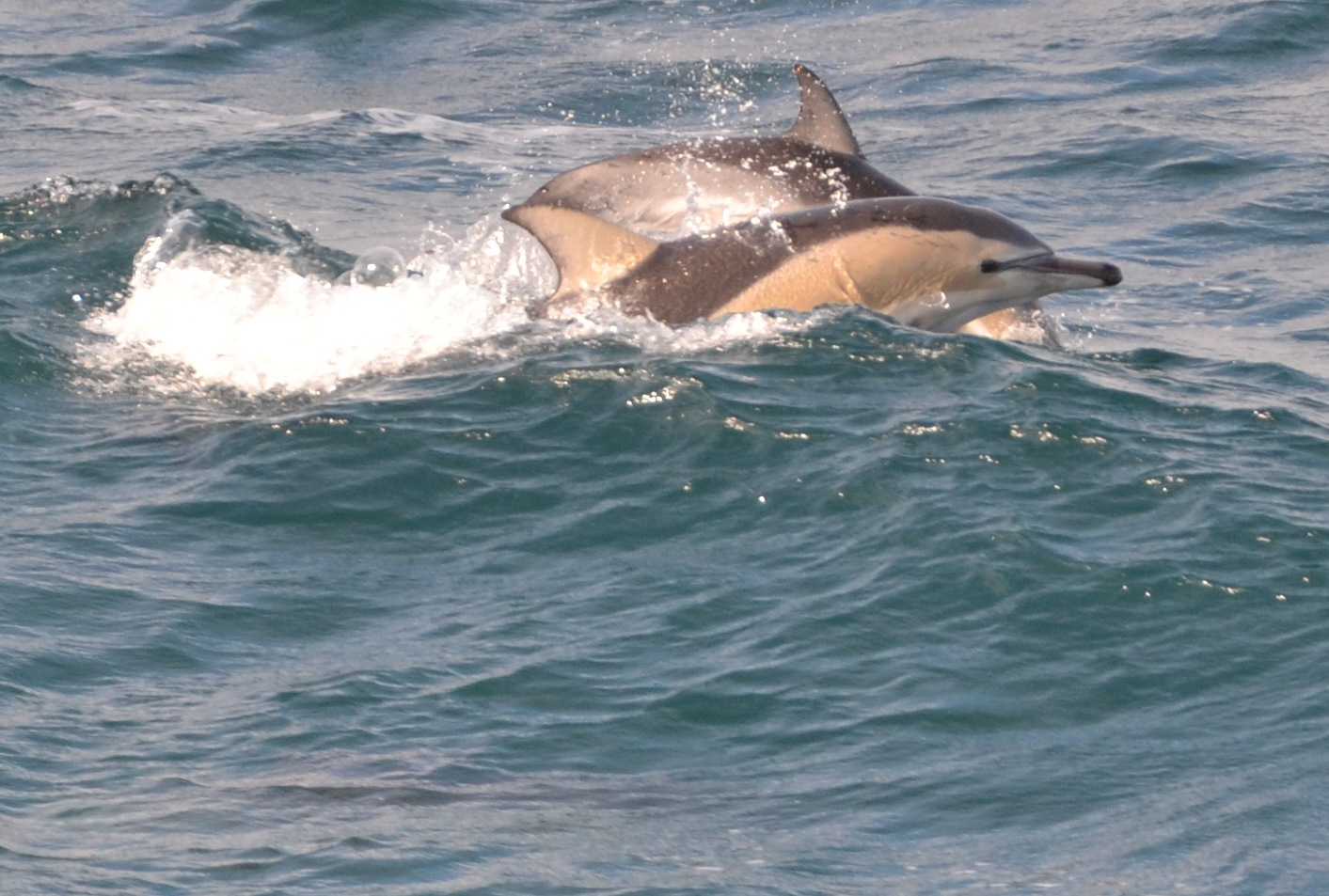 Dolphin